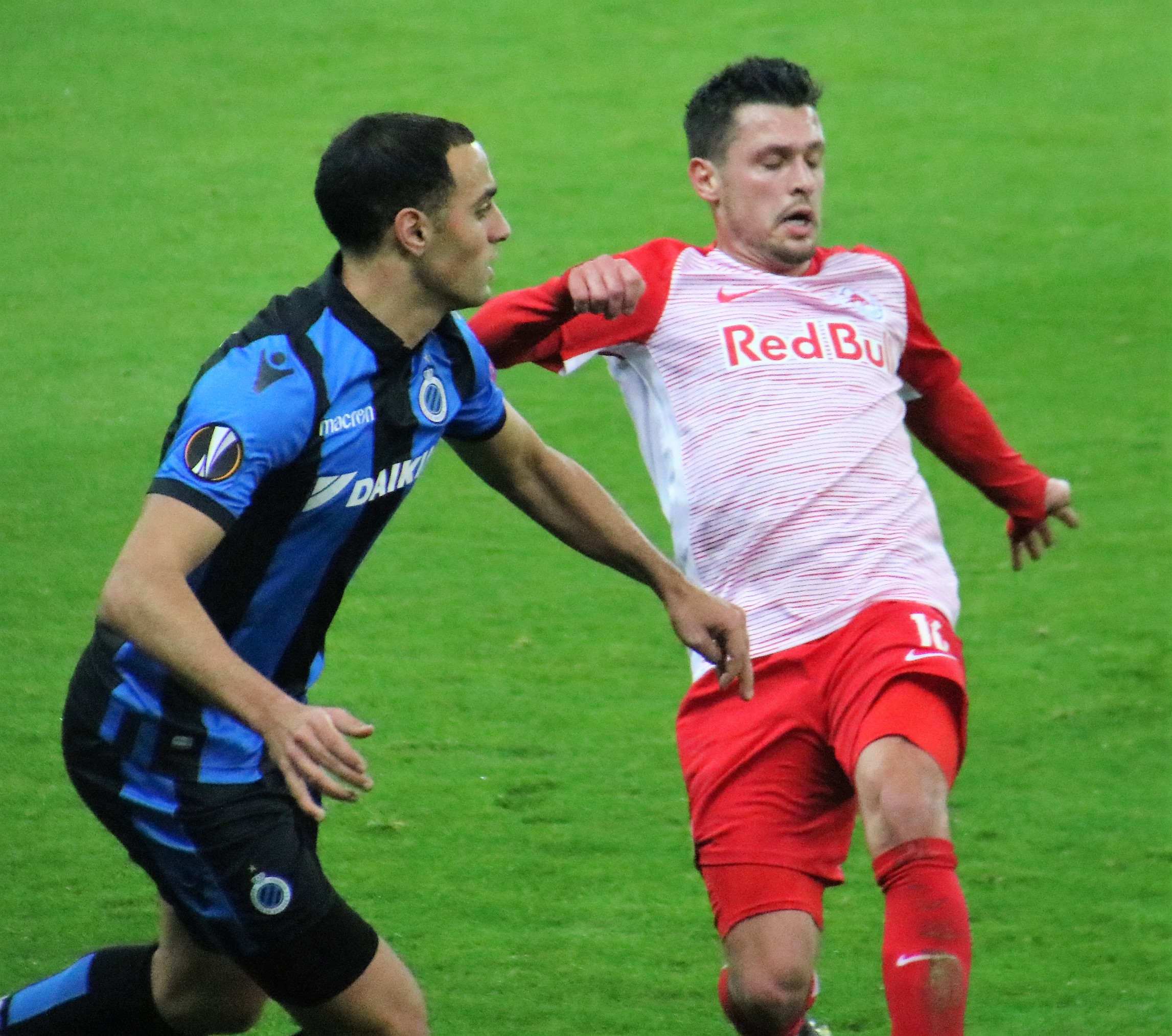 UEFA Euro League round of 32